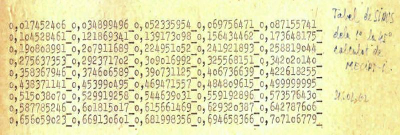 Sinus table – output of MECIPT-1 test code